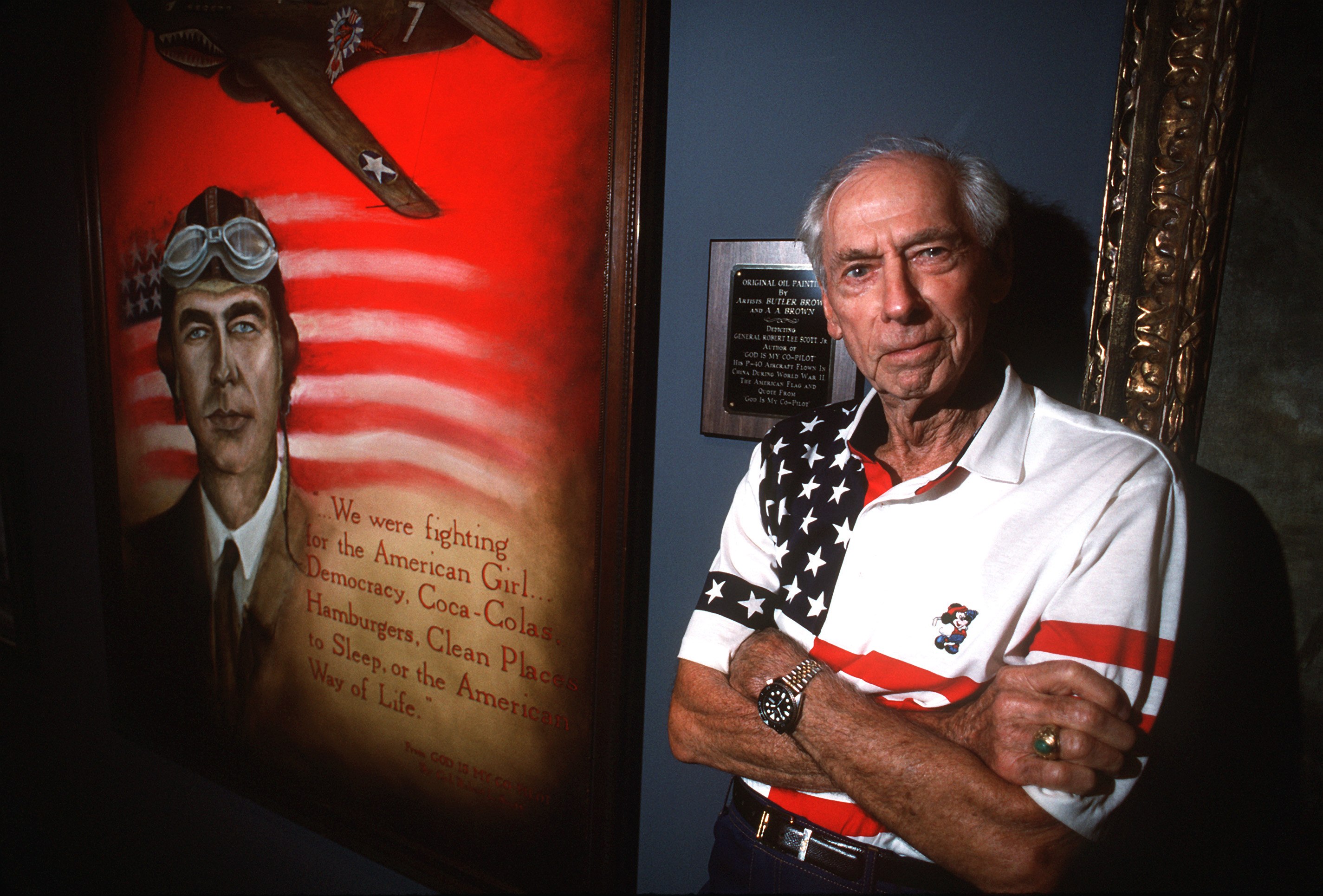 Retired Gen. Robert Lee Scott, is pictured next to an original oil painting of himself. Scott flew P-40's in combat over Burma and China with the "Flying Tigers" in World War II where he claims 22 kills from 1941-1942. Scott is the author of the best seller "God is My Co-Pilot". Scott now works in the Museum of Aviation, Robins AFB, Ga.